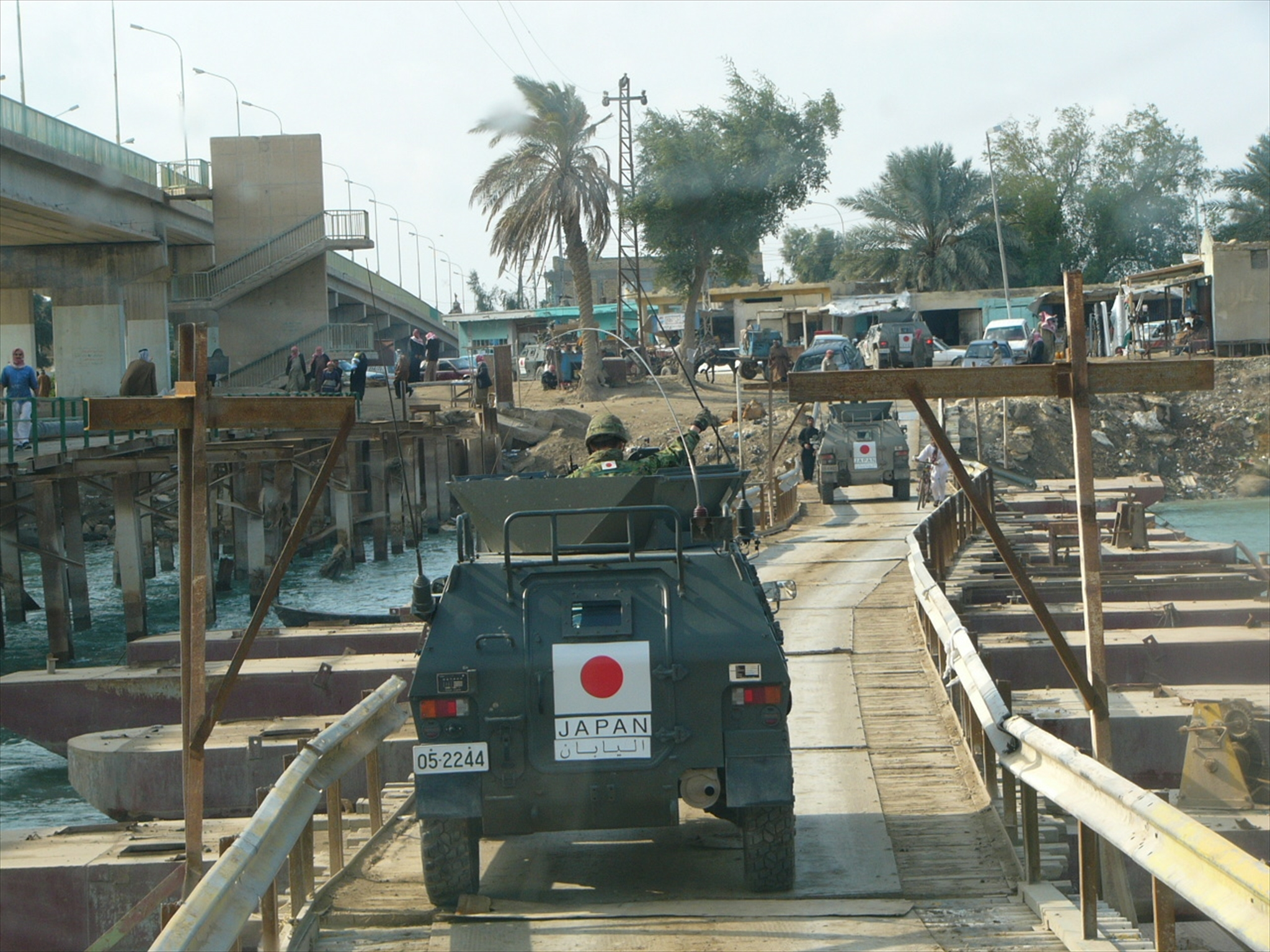 Title P1060634_R.JPG Album 国際平和協力活動等（及び防衛協力等） イラク人道復興支援特措法に基づく活動